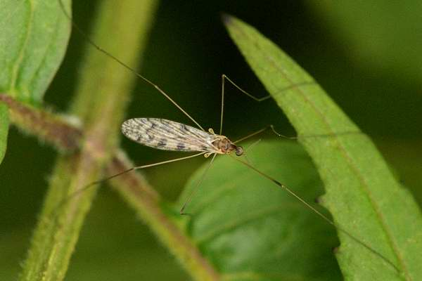 Eloeophila maculata from Commanster, Belgian High Ardennes .